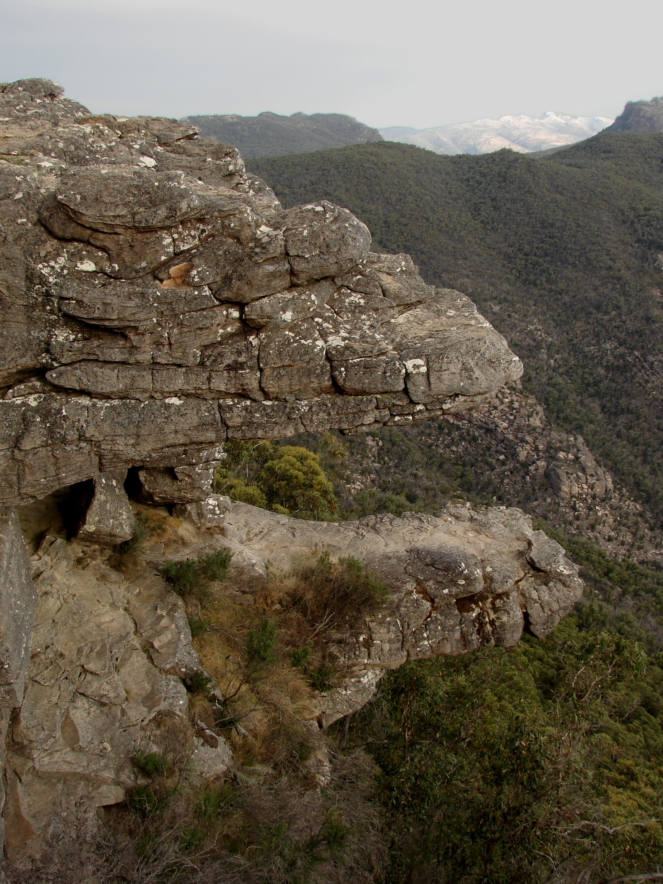 The balconies, Grampians National Park, Victoria, Australia